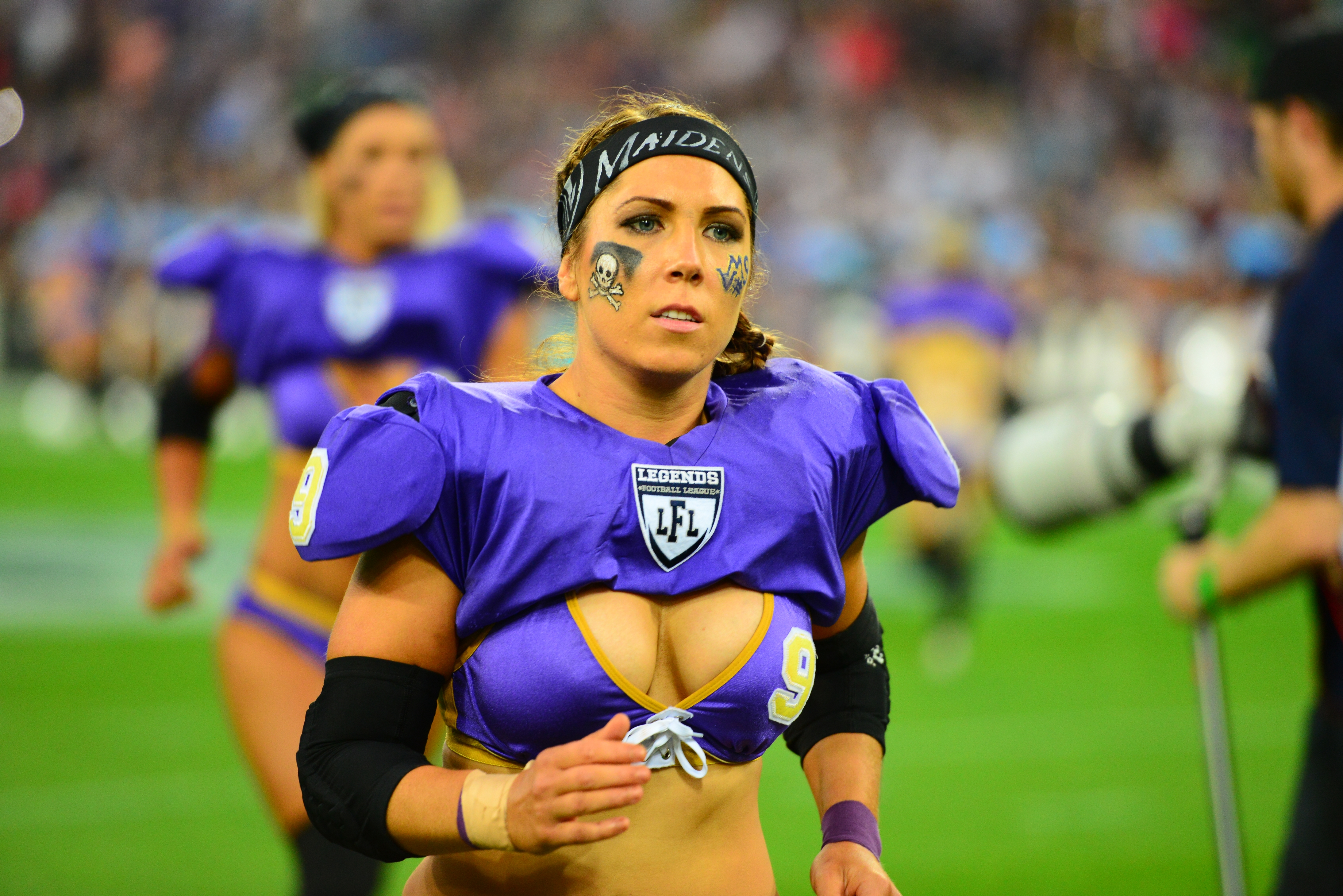 Legends Football League Australia - (Victoria Maidens vs NSW Surge)